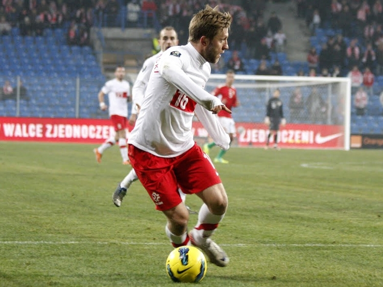 Jakub Błaszczykowski